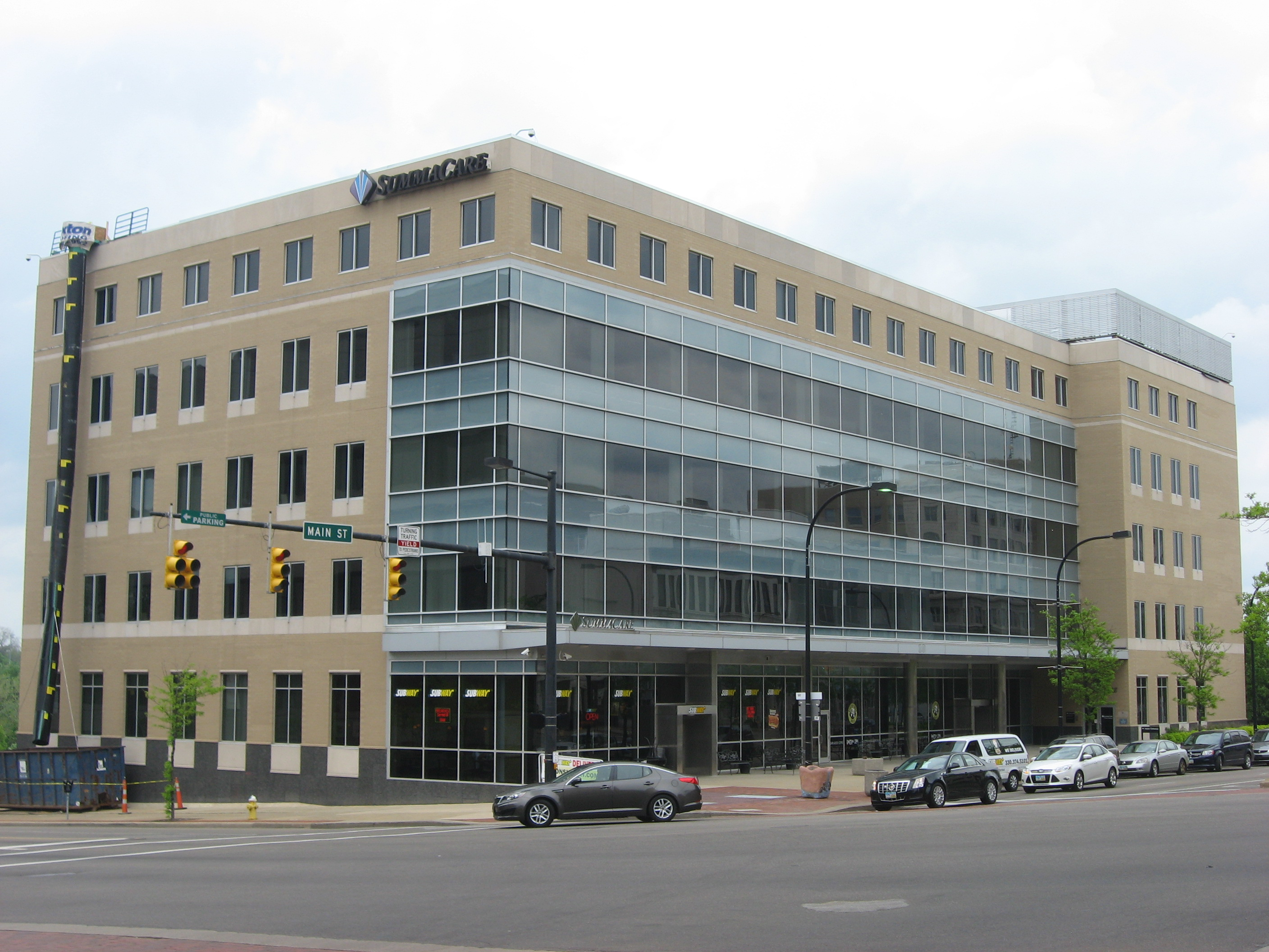 Front and southern side of the headquarters of Summacare, located at 10 N. Main Street along Market Street (State Routes 18/162) in downtown in Akron, Ohio, United States. This building occupies the site of the Portage Hotel, which was listed on the National Register of Historic Places in 1988; it has not yet been removed.